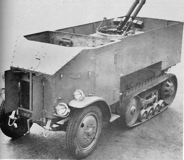 British semi-tracked armoured personnel carrier Burford-Kegresse 30cwt.